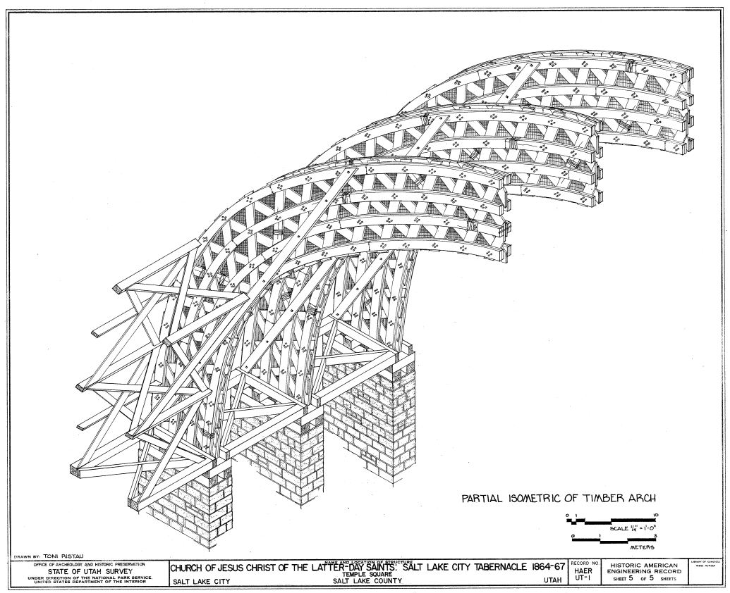 Detail of the carpentry roof of the domed Salt Lake Tabernacle. Note the wooden pegs and beams bound together by strips of rawhide. The Salt Lake Tabernacle is a historic building of The Church of Jesus Christ of Latter-day Saints.